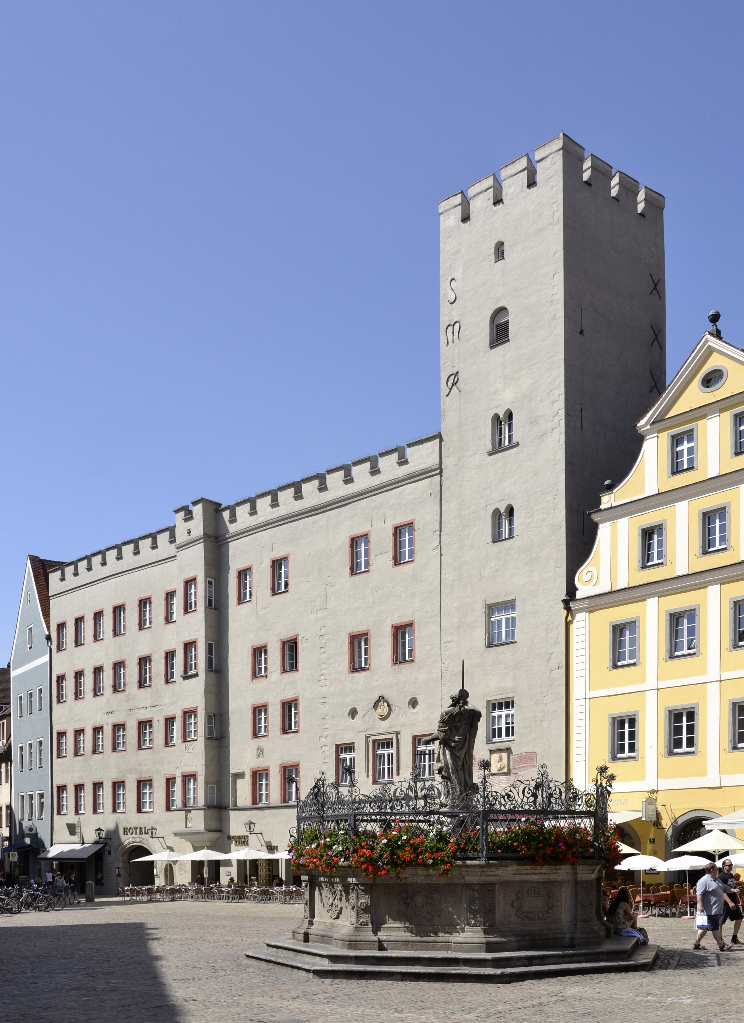 The Goldenes Kreuz at the Haidplatz with the Justiziabrunnen in front in Regensburg, Bavaria.